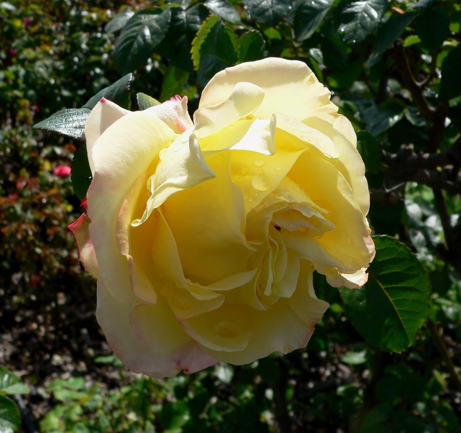 Photo of Rosa 'Peer Gynt' at the San Jose Heritage Rose Garden